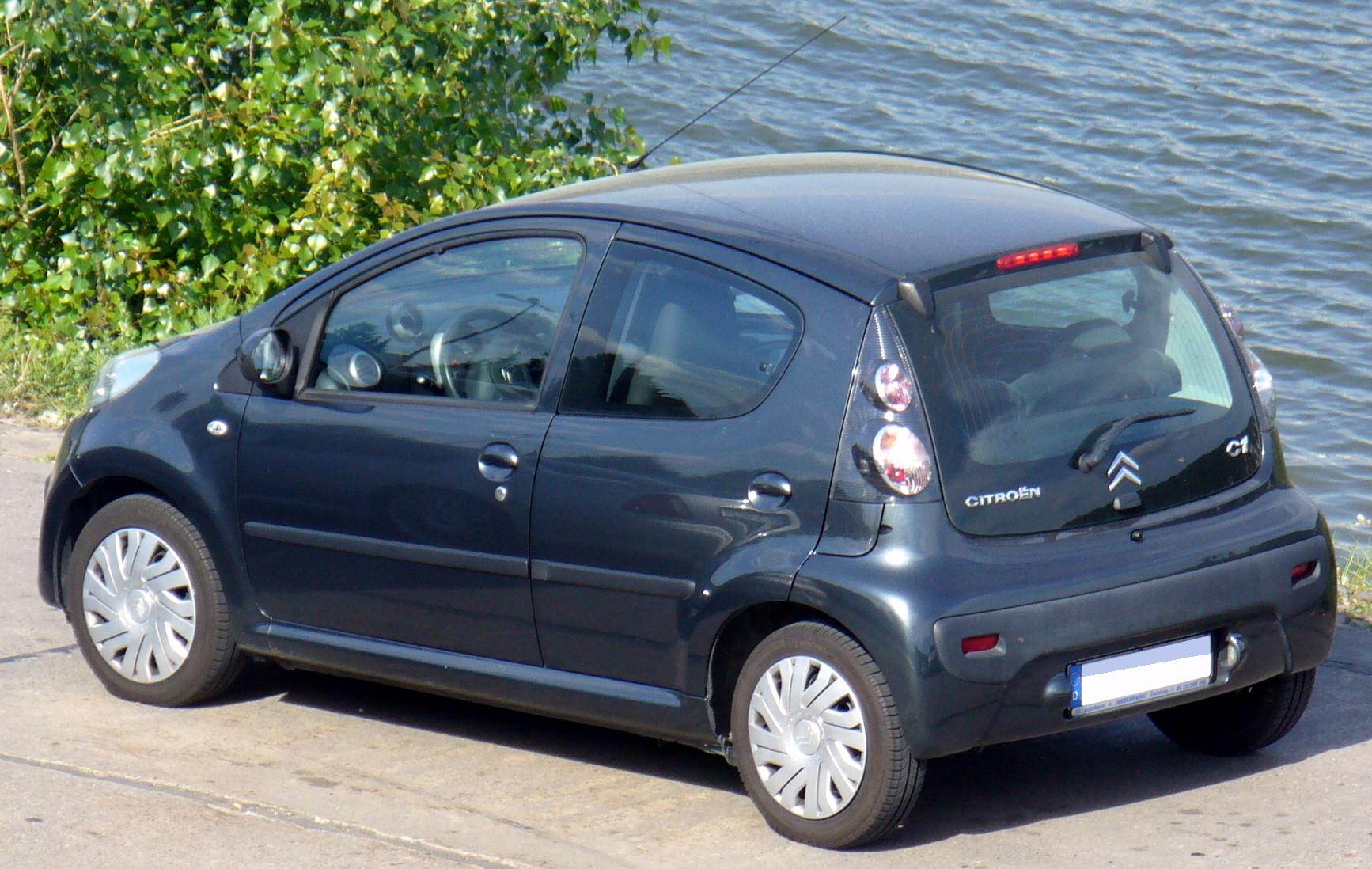 Citroën C1